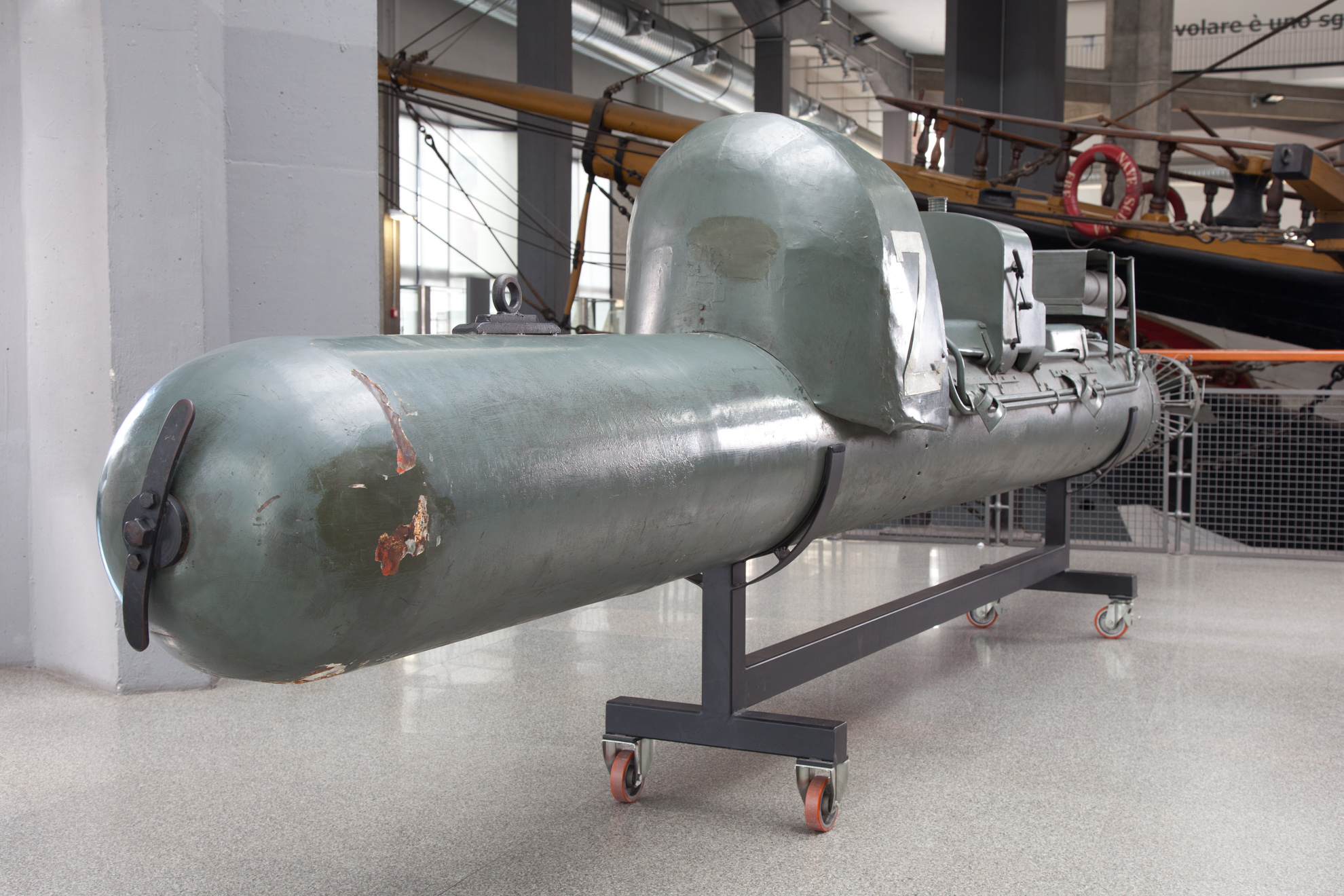 siluro guidato detto maiale al Museo della scienza e tecnologia